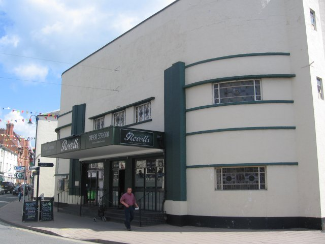 Pola cinema Welshpool